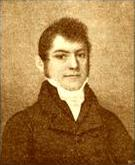 This art is from Europe and is an image of an individual who died in the 1840's and the art was produced while the individual was still alive. Therefore, the author is most certainly deceased. There is no attribution to this artwork. The image is a scan of a photograph. The photograph is of unknown origin, but cannot be copyrighted according to law anyways. Removed from the following pages: Bovet Fleurier --OrphanBot (talk) 05:30, 15 July 2008 (UTC)